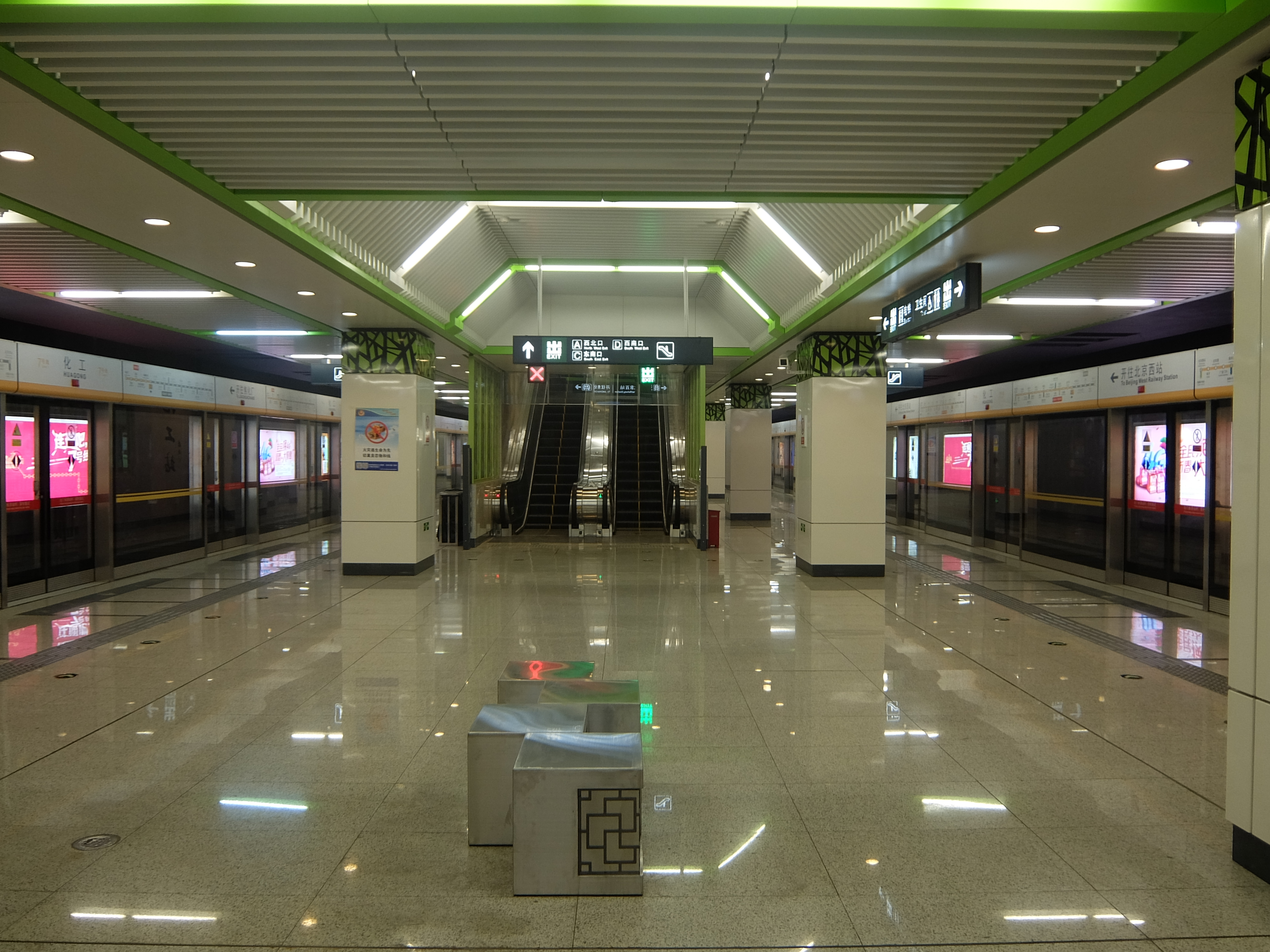 Platform of Huagong Station on Line 7 of the Beijing Subway.